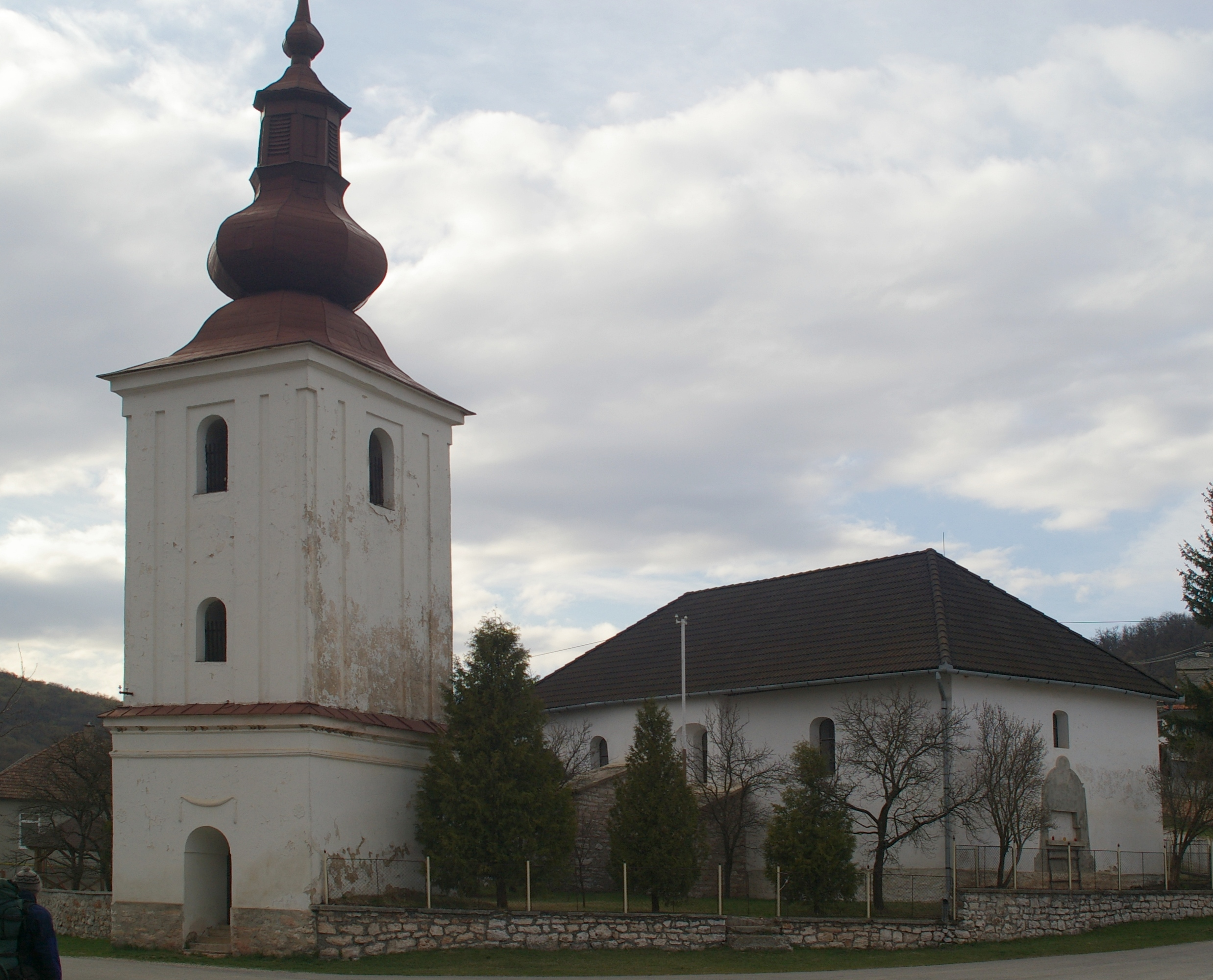 Silická Brezová - church